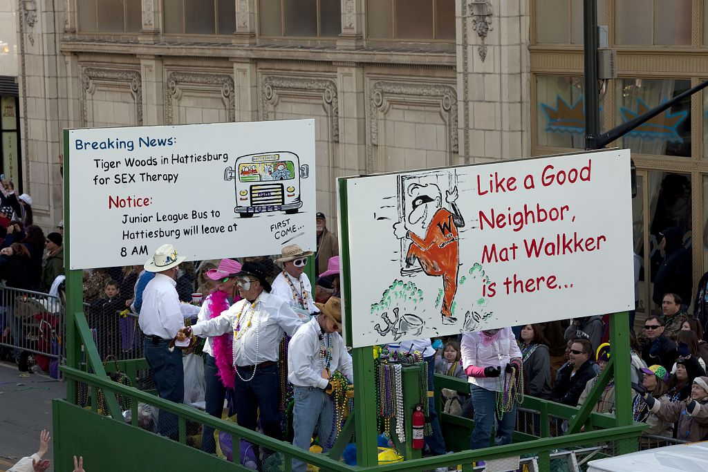 Mardi Gras, Mobile, Alabama.